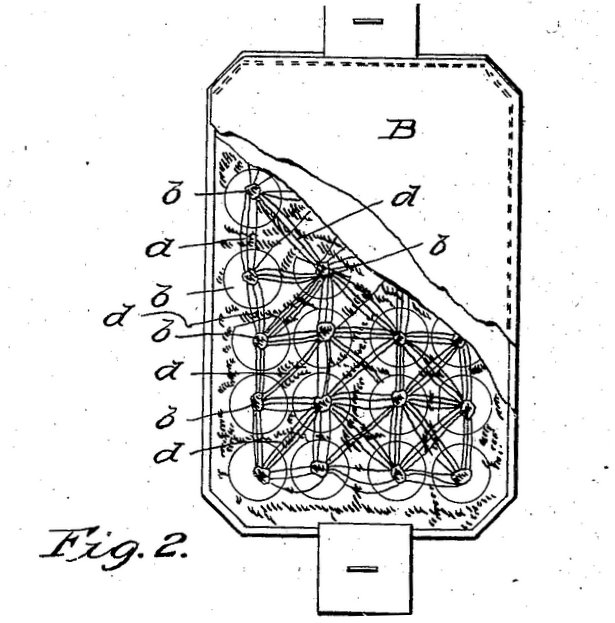 Physiological battery